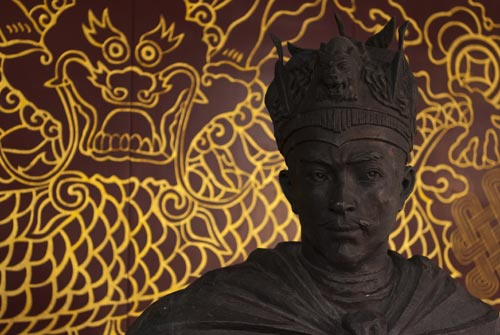 Picture of bust of Li Xiucheng, general of Taiping Rebels. Bust is located in Suzhou.